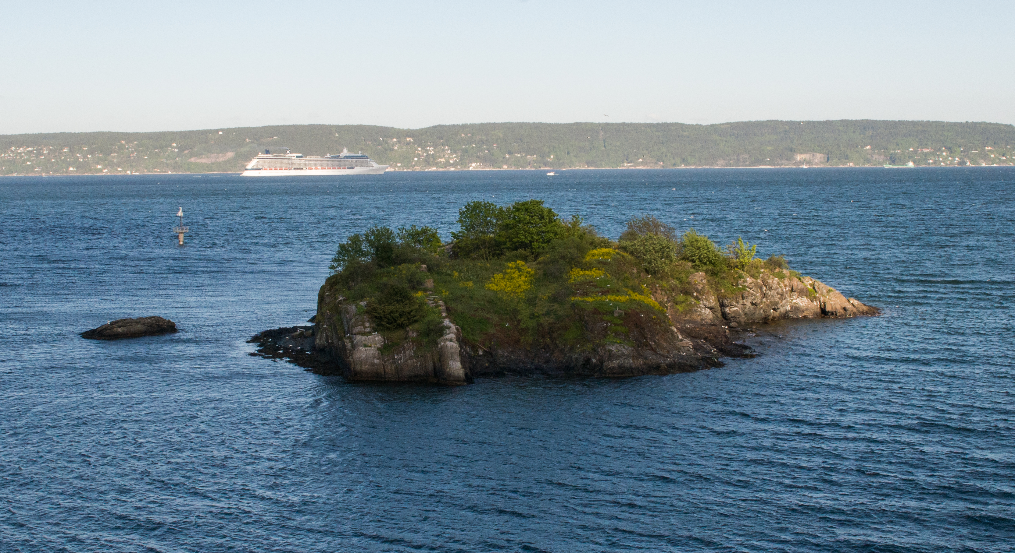 Geitungsholmen nature reserve, Røyken, Norway